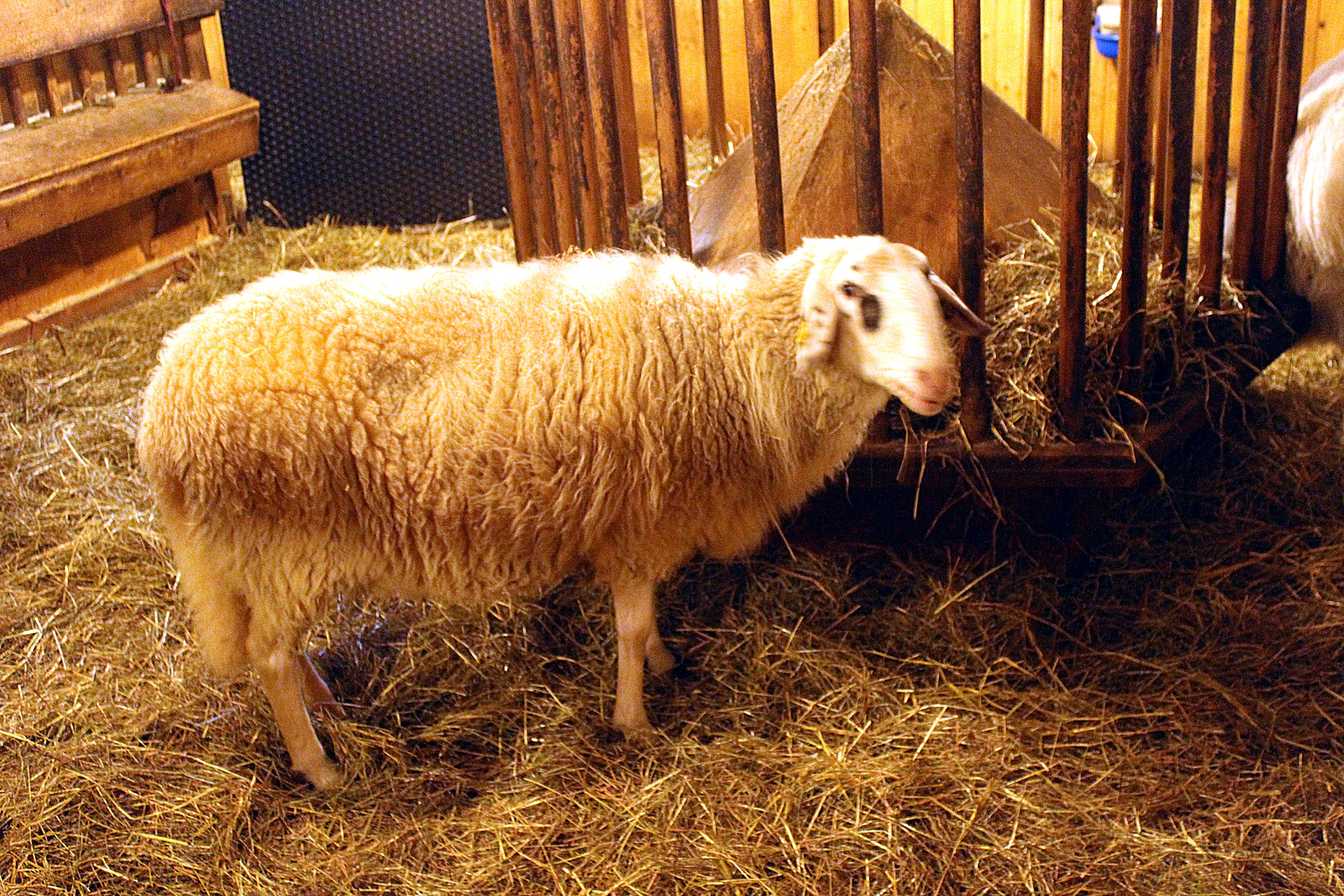 Vienna-Schönbrunn, zoo, the Haidachhof, stable, sheep of Tirol